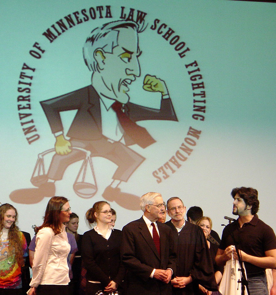 University of Minnesota Law School student body announces the creation of the "Fighting Mondales" mascot in honor of alumnus and former Vice President Walter F. Mondale (foreground).